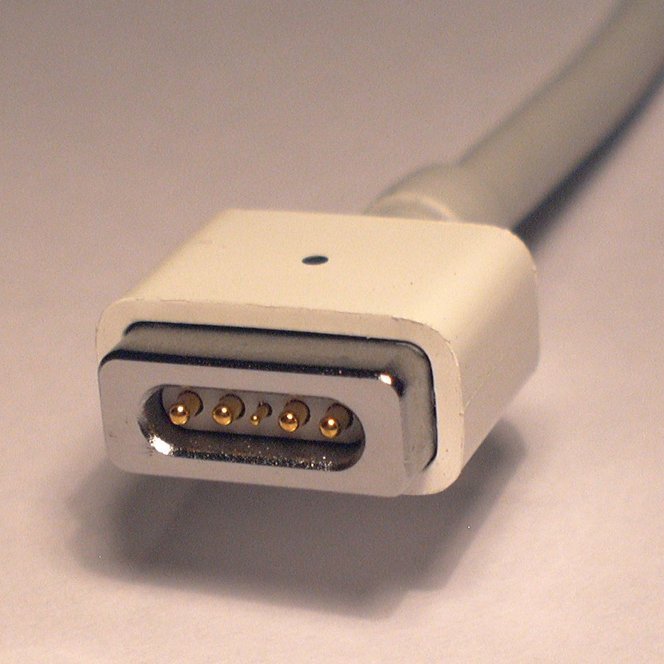 A Magsafe prise.